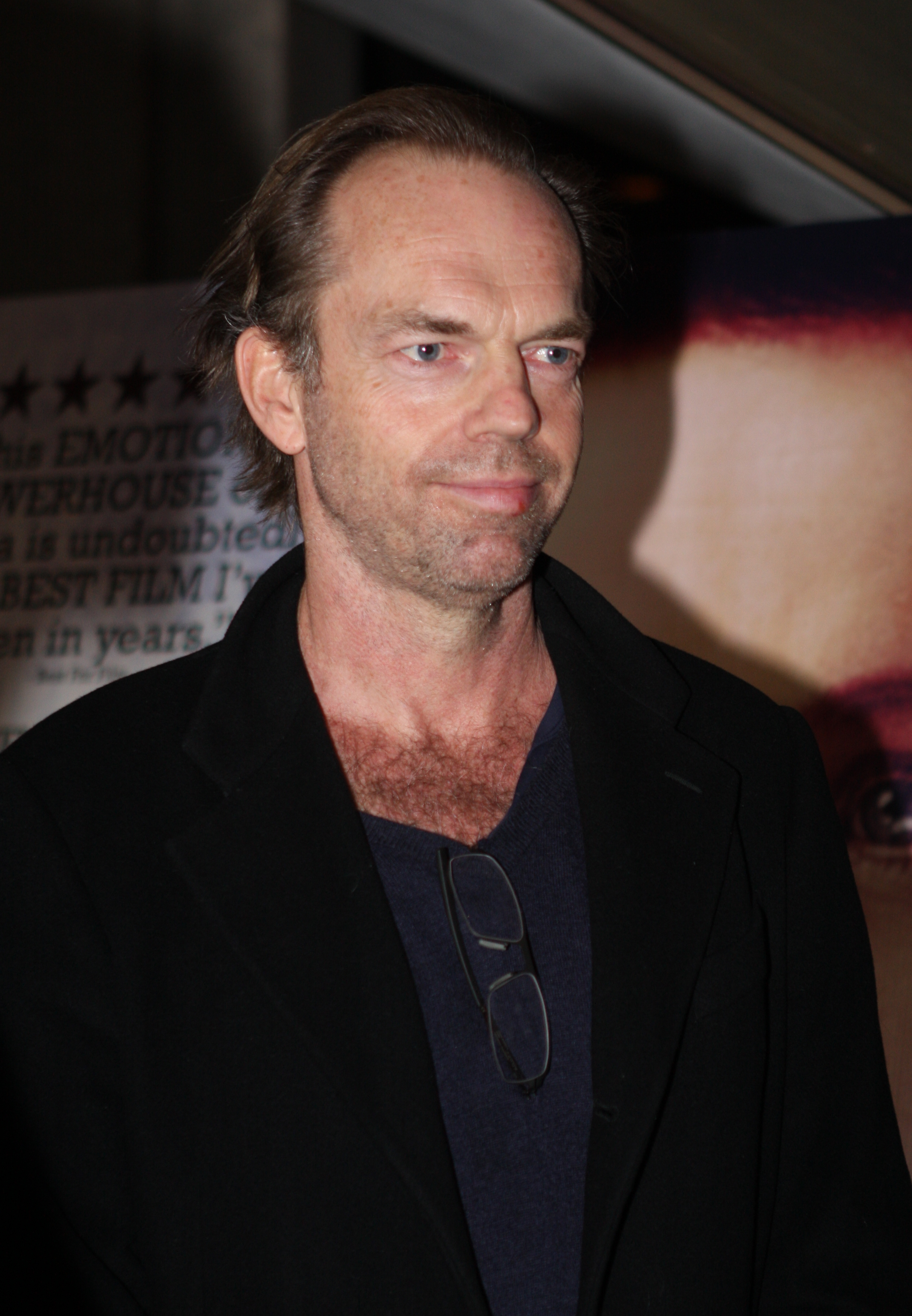 Actor Hugo Weaving at the premiere of Oranges and Sunshine in Sydney.